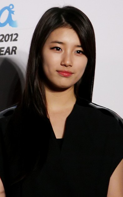 Bae Suzy at Seoul Music Awards red carpet, 19 January 2012